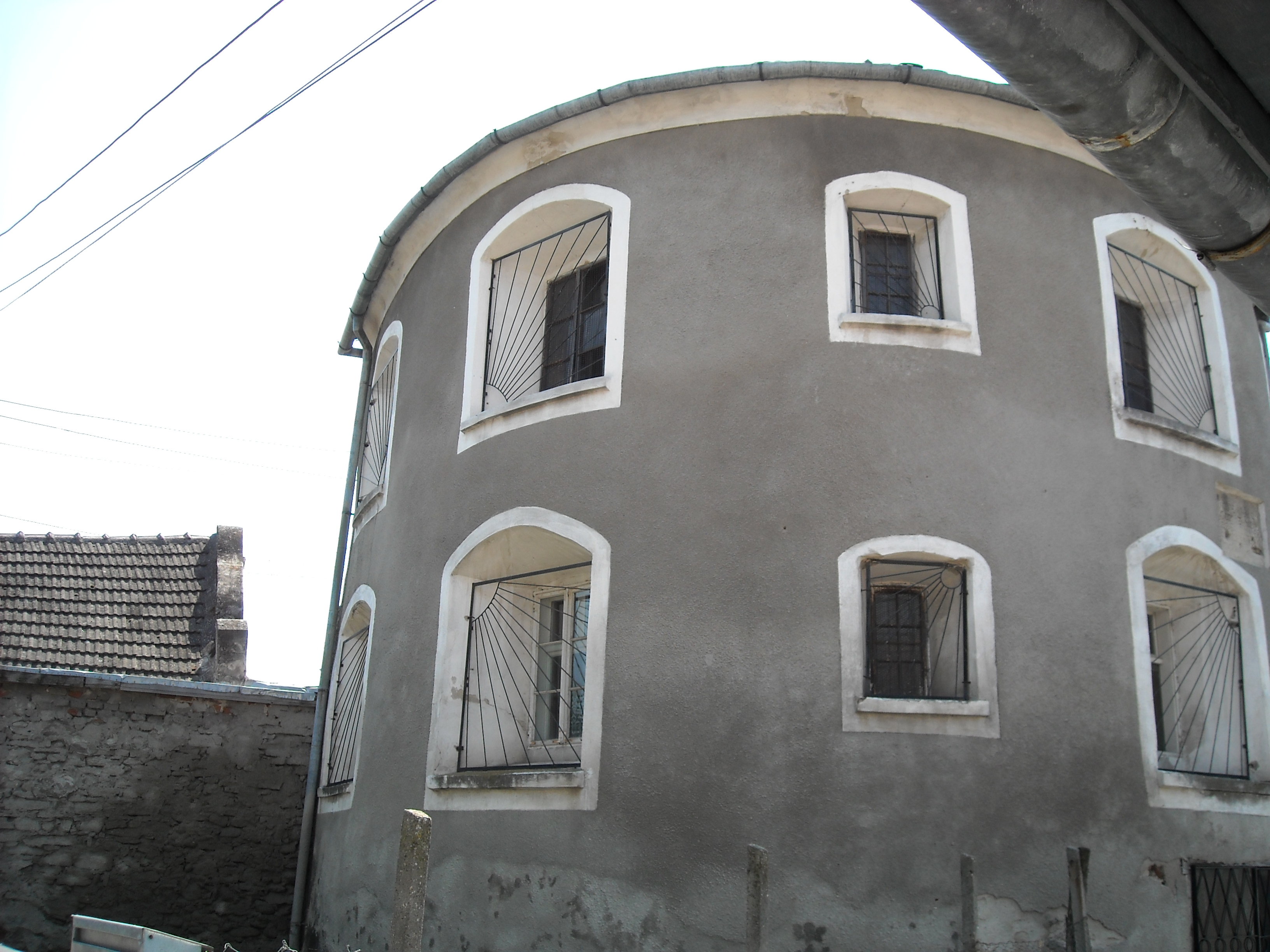 the Schmiedturm in Sebeş (Mühlbach, Szászsebes)